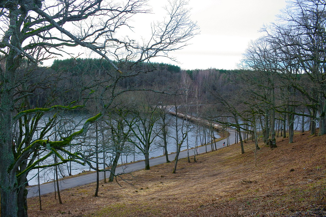 Asveja Lake bridge seen from the Dubingiai Castle hill